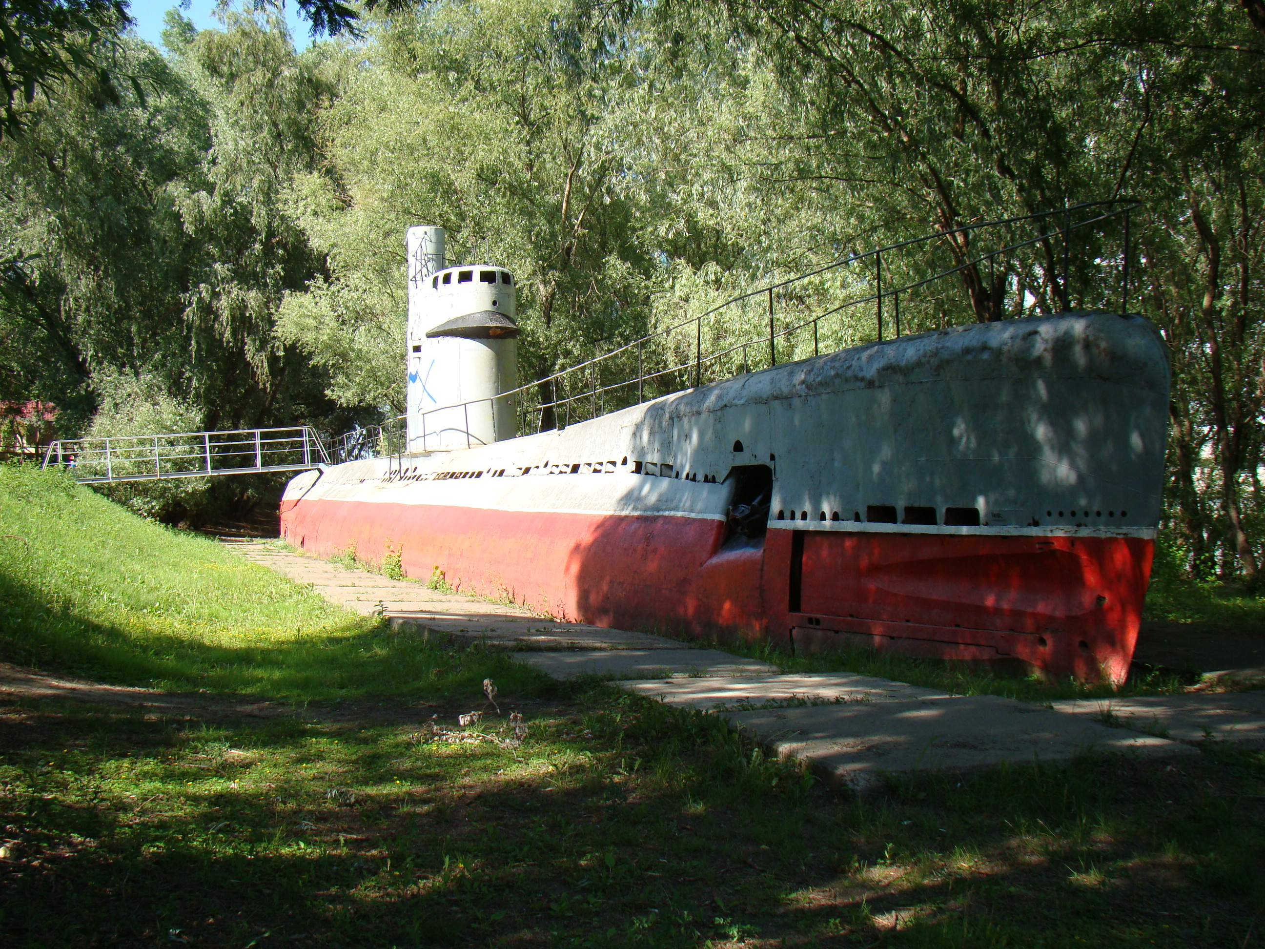 Музей военной техники "Оружие Победы". Парк культуры и отдыха имени 30-летия Победы, Краснодар. This file contains images of museum objects that are included in the Museum fund of the Russian Federation, or images of Russian museums buildings and symbols The Russian Museum Law, article 36, restricts anyone from: using images of museum objects and collections; buildings, museums and sites on museum grounds; and the names and symbols of museums; — on replicated products and consumer goods without authorization by the museum in question. English | русский | +/−